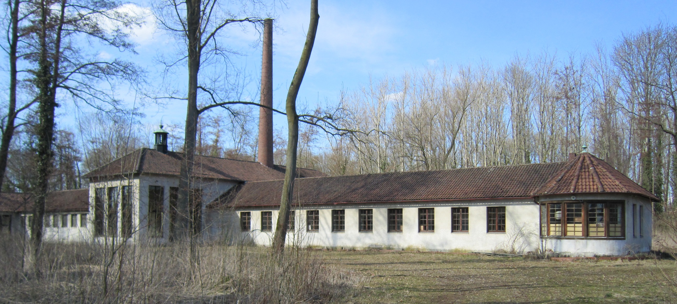 Former Sulfur Bath in Levern (Stemwede)